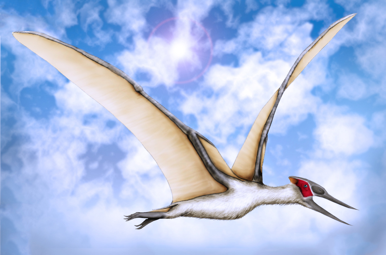 Muzquizopteryx coahuilensis